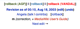 Example diff showing what it looks like to have both Twinkle and Rollback